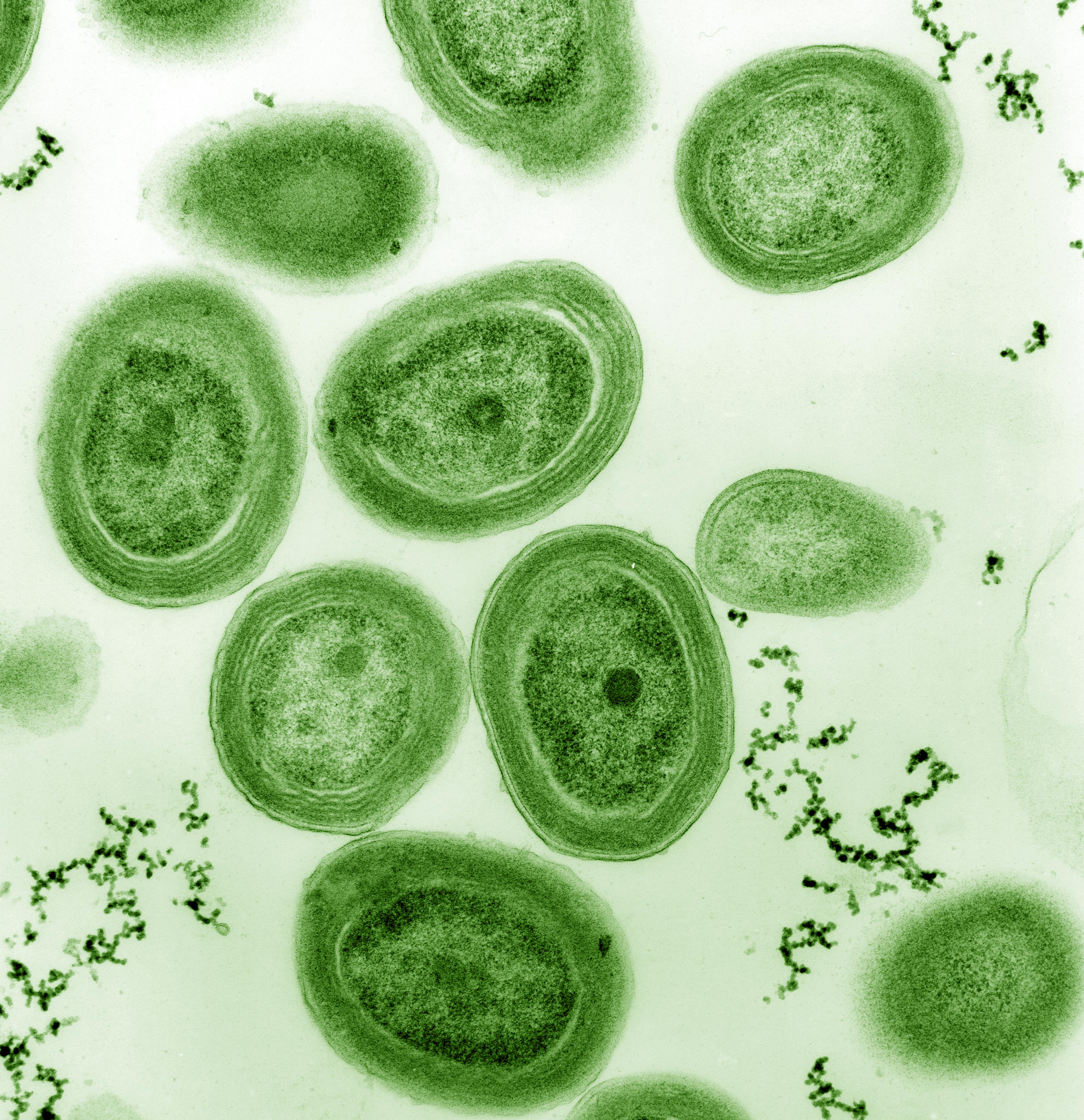 TEM image of Prochlorococcus marinus with overlay green coloring. A globally significant marine cyanobacterium.